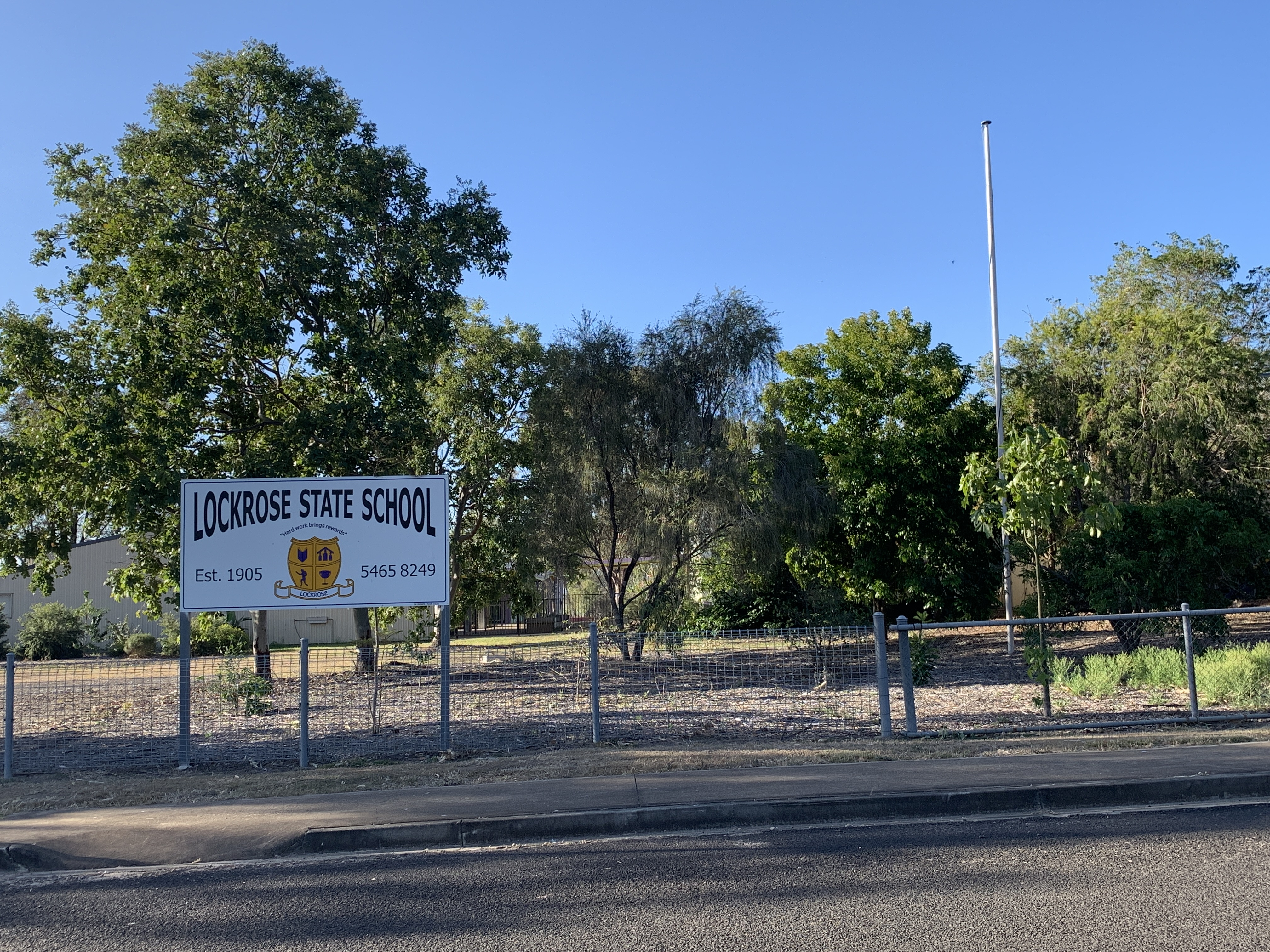 Lockrose State School, 2019